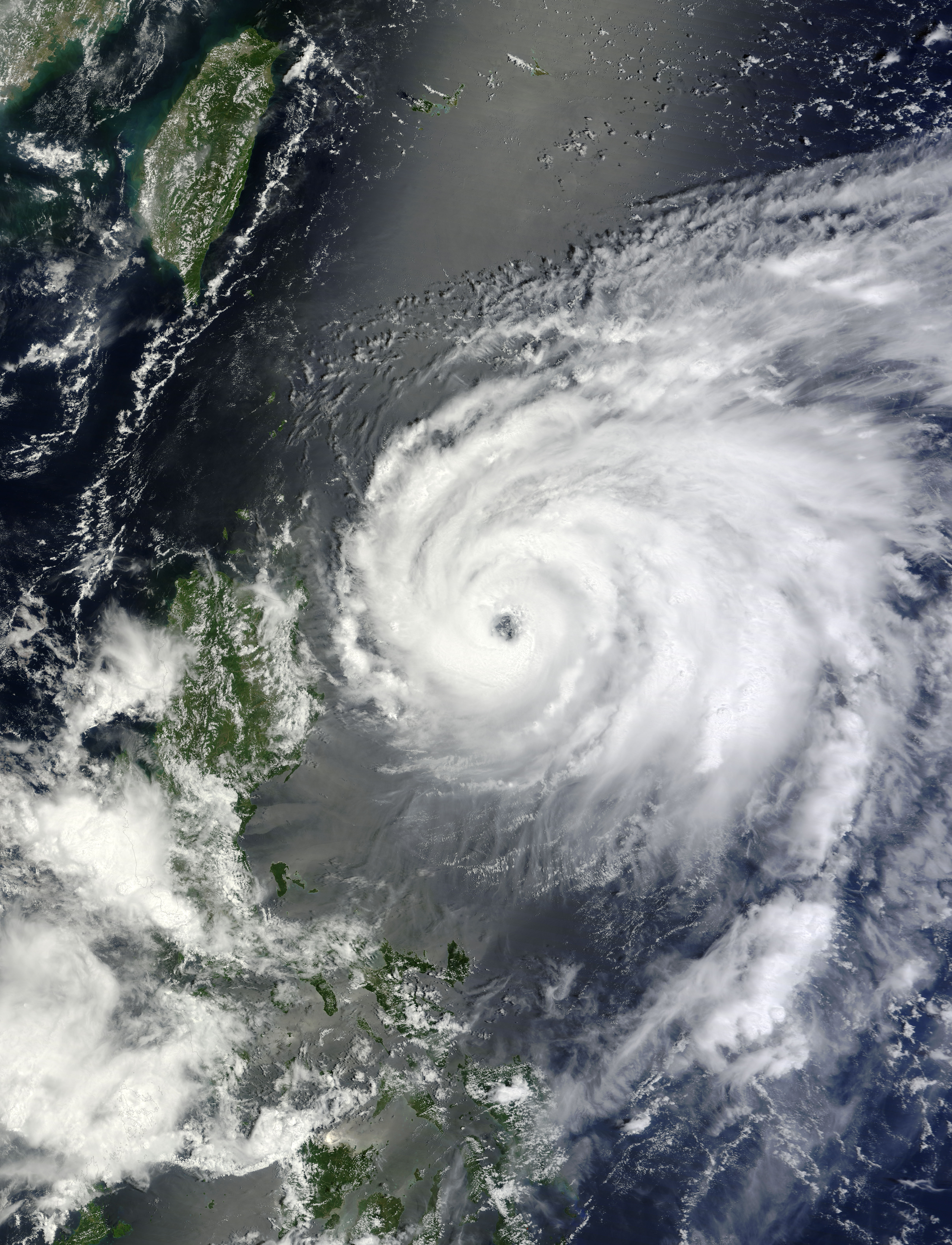 Typhoon Tembin (15W) off the Philippines